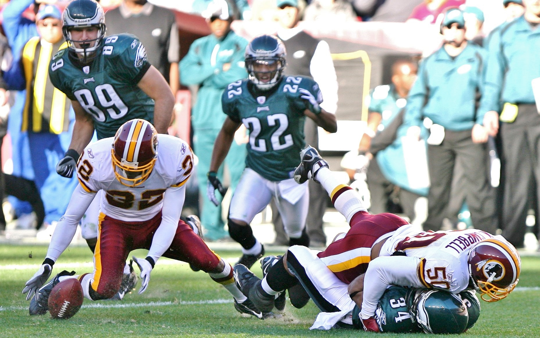 Ade Jimoh, cornerback/#32 for the Washington Redskins, recovers fumble in front of Philadelphia Eagles tight end #89 Matt Schobel.